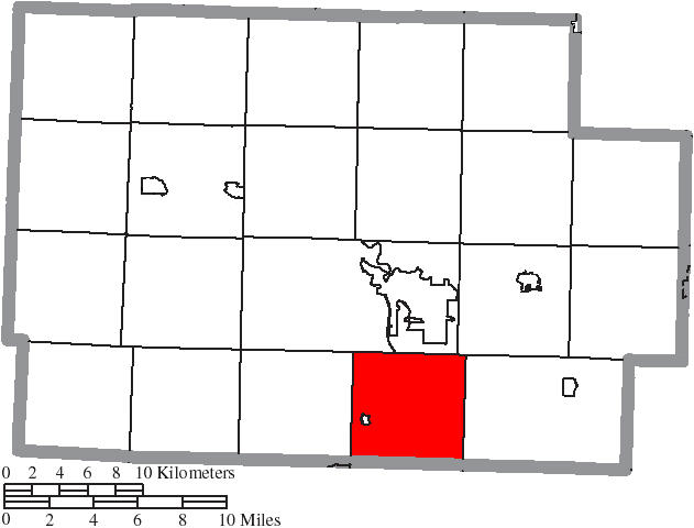 Map of the municipal and township boundaries of Coshocton County, Ohio, United States, as of the 2000 census, with the location of Franklin Township highlighted. Township borders are shown only in unincorporated areas in order to differentiate incorporated and unincorporated areas more clearly.